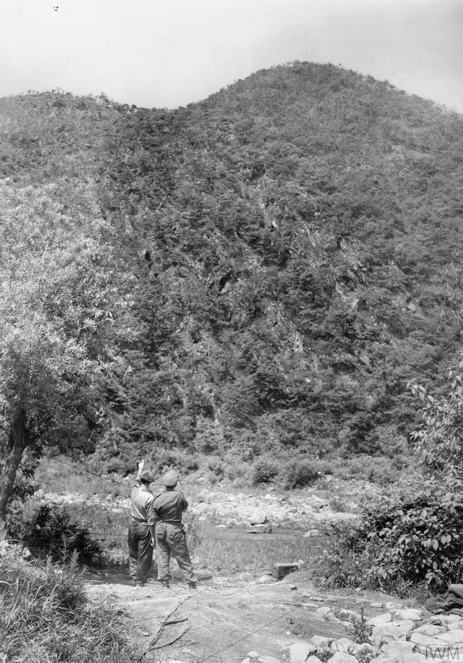 An officer of the 1st Battalion, Gloucestershire Regiment indicates to a military observer the area on Hill 235 in Korea where the Battalion fought against Chinese Communist Forces (in the battle of Imjin) in April 1951. This picture was taken five weeks after the battle.